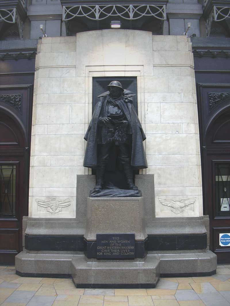 Great Western Railway War Memorial, Charles Sargeant Jagger, 1922